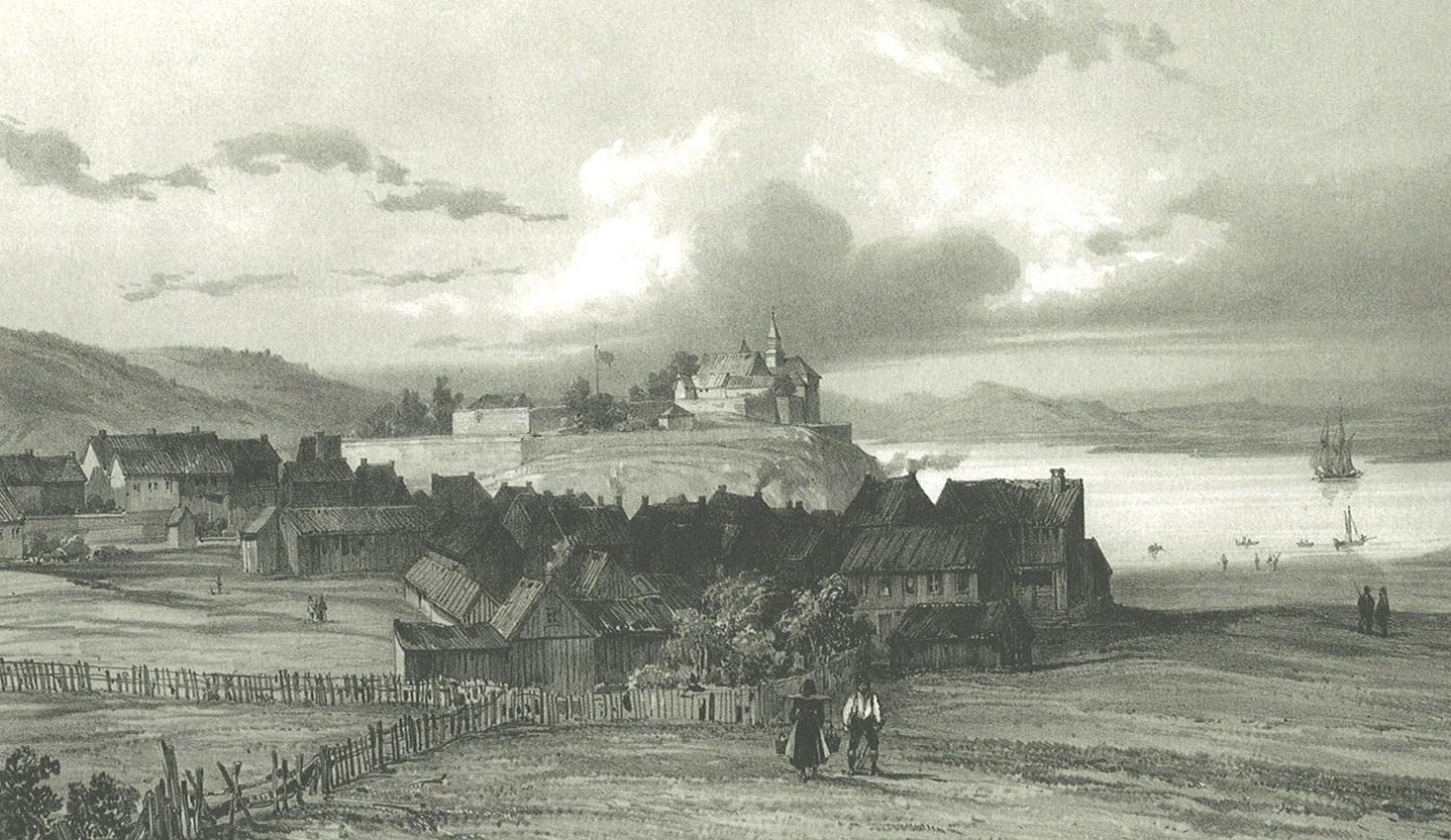 Village Pipervigen by Christiania (Oslo) in the late 1830s/early 1840s